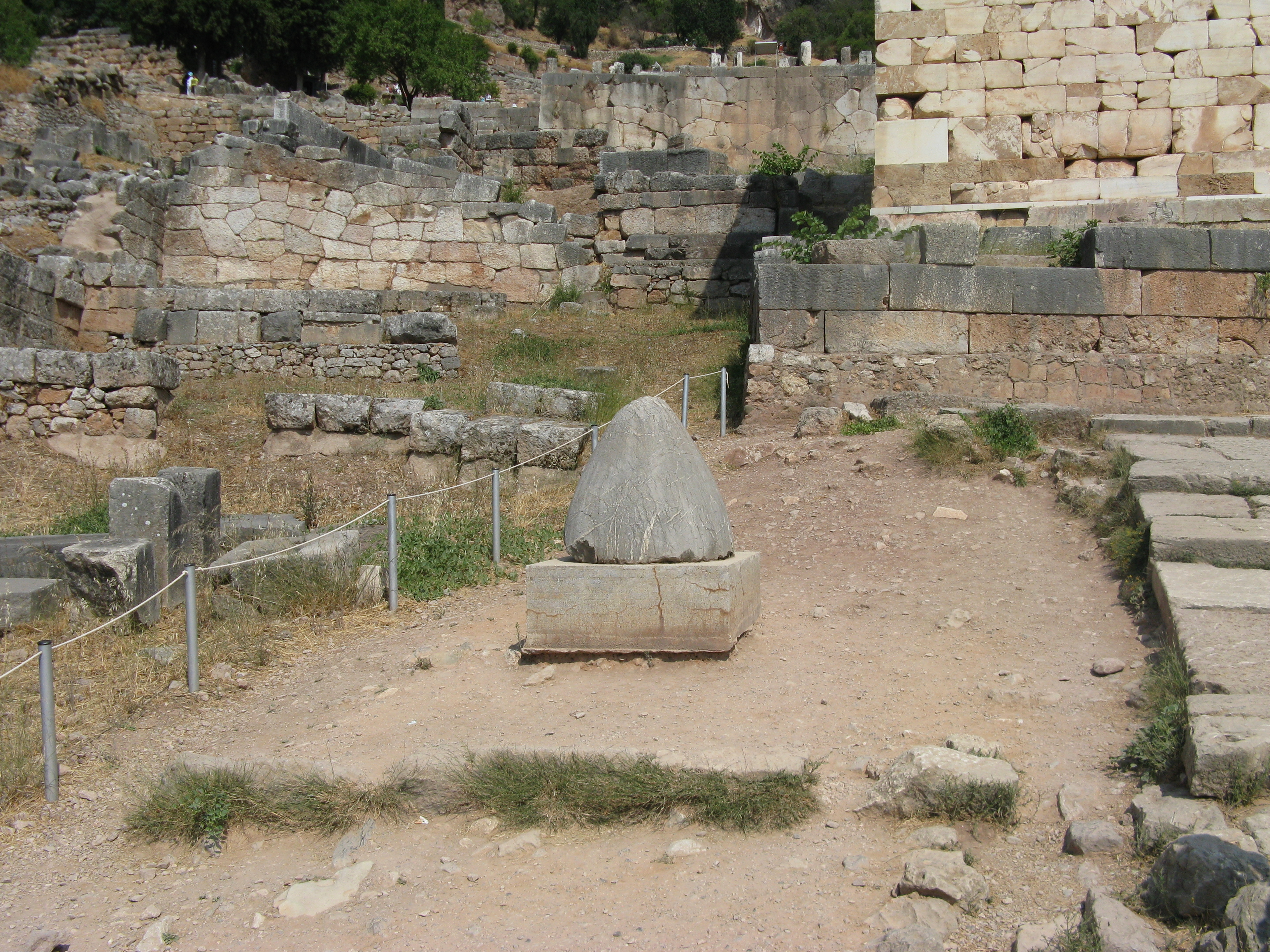 Navel of World